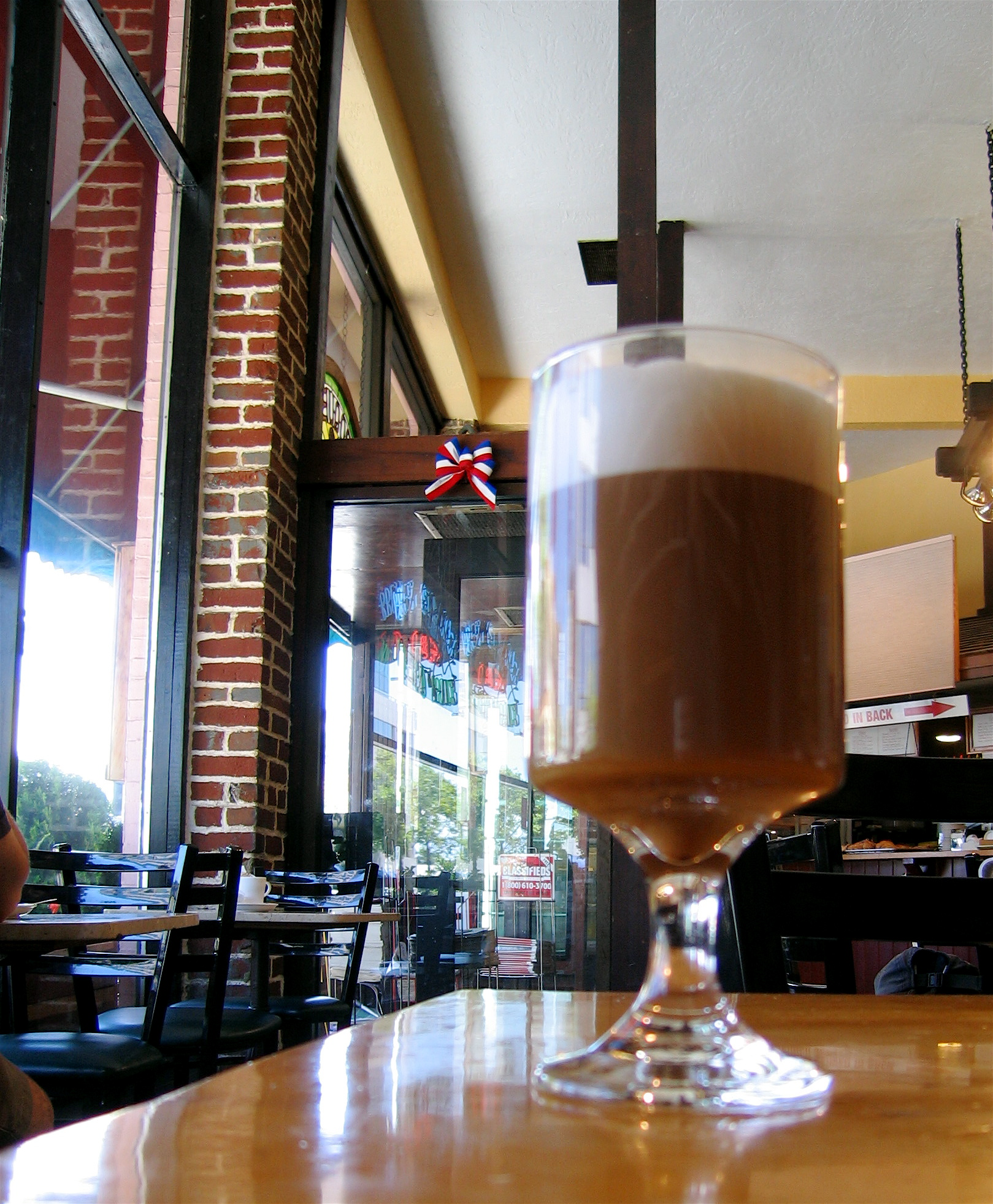 Cappuccino at Au Coquelet Café, in Berkeley. Serves some of the most aesthetically pleasing coffee drinks. May 2005.